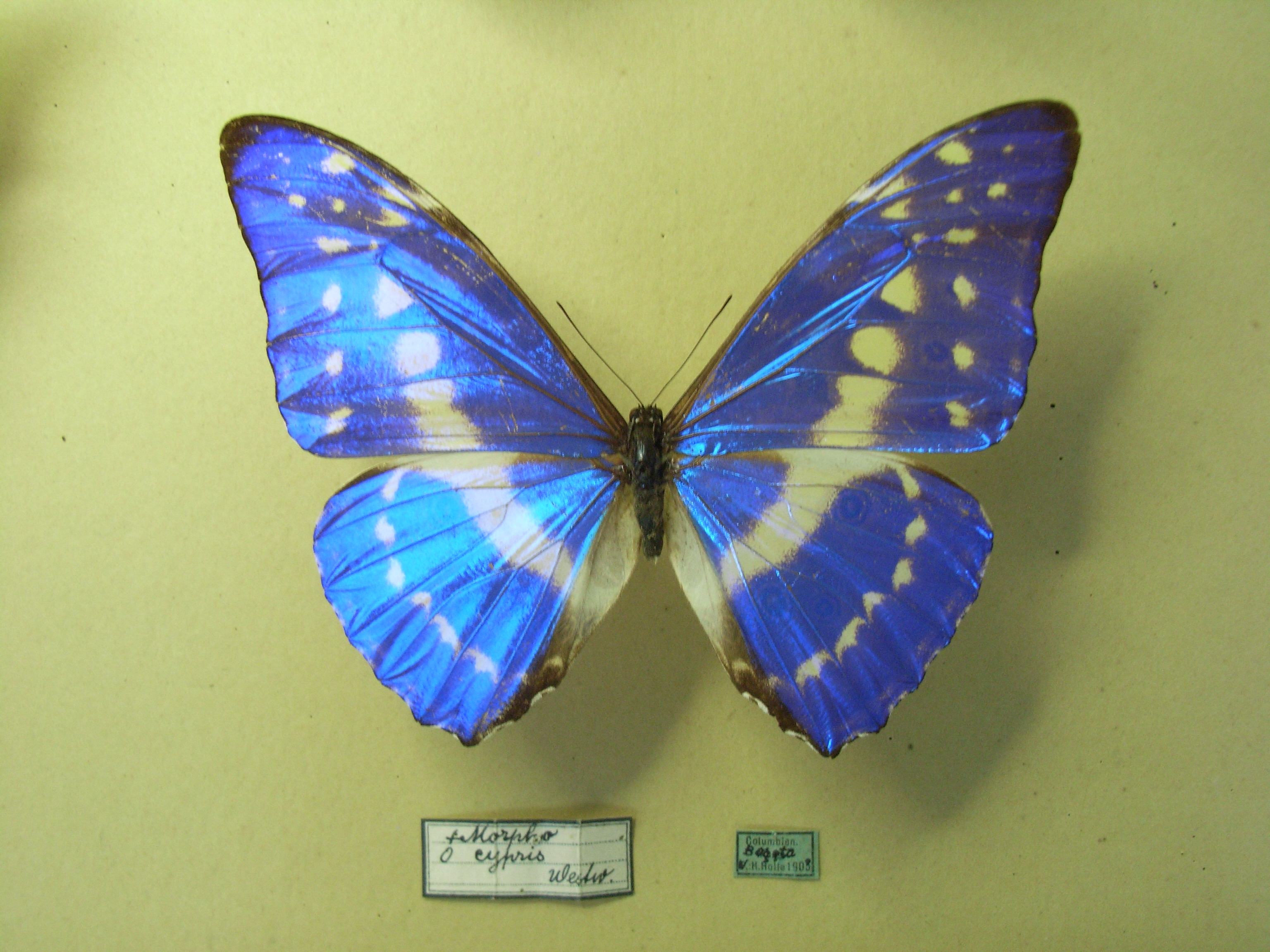 Morpho cypris Westwood, 1851 Ex coll. Museum Wiesenbad